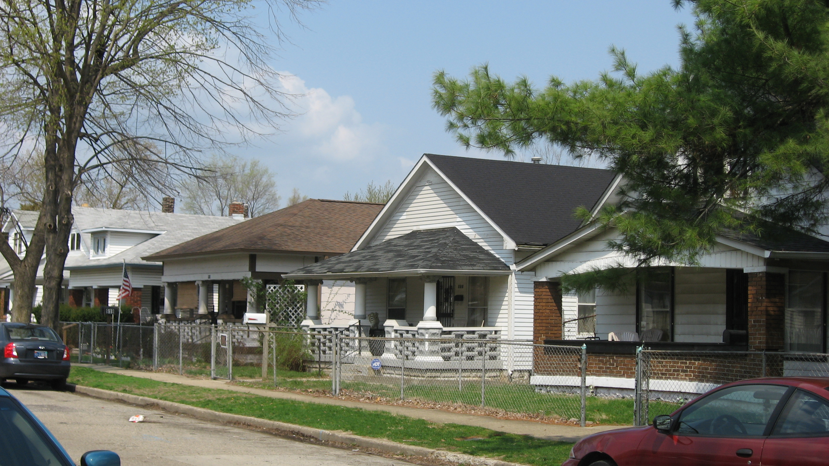 Houses on the eastern side of the 900 block of N. Warman Avenue in the Haughville neighborhood of Indianapolis, Indiana, United States. This block is part of the Haughville Historic District, a historic district that is listed on the National Register of Historic Places.